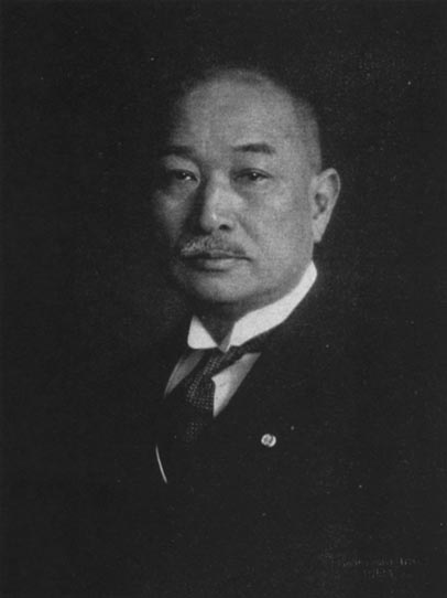 Taiko Yoshida (at the time of retirement in 1932).